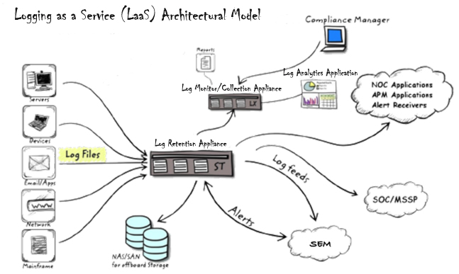 a model showing a common scenario for Logging as a Service (LaaS) in the context of enterprise applications, servers and devices